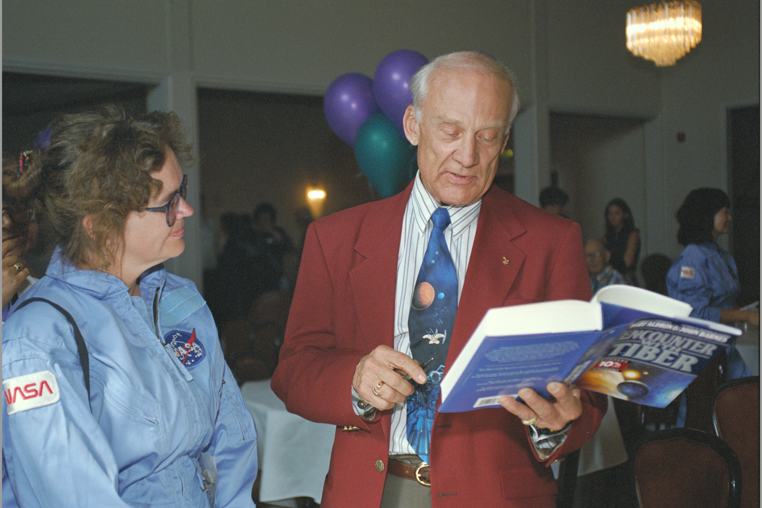 1996 'STELLAR' program commencement with special guest Astronaut Buzz Aldrin drops by to tour and chat. Aldrin was attending his book signing at US Space Camp earlier in the day.